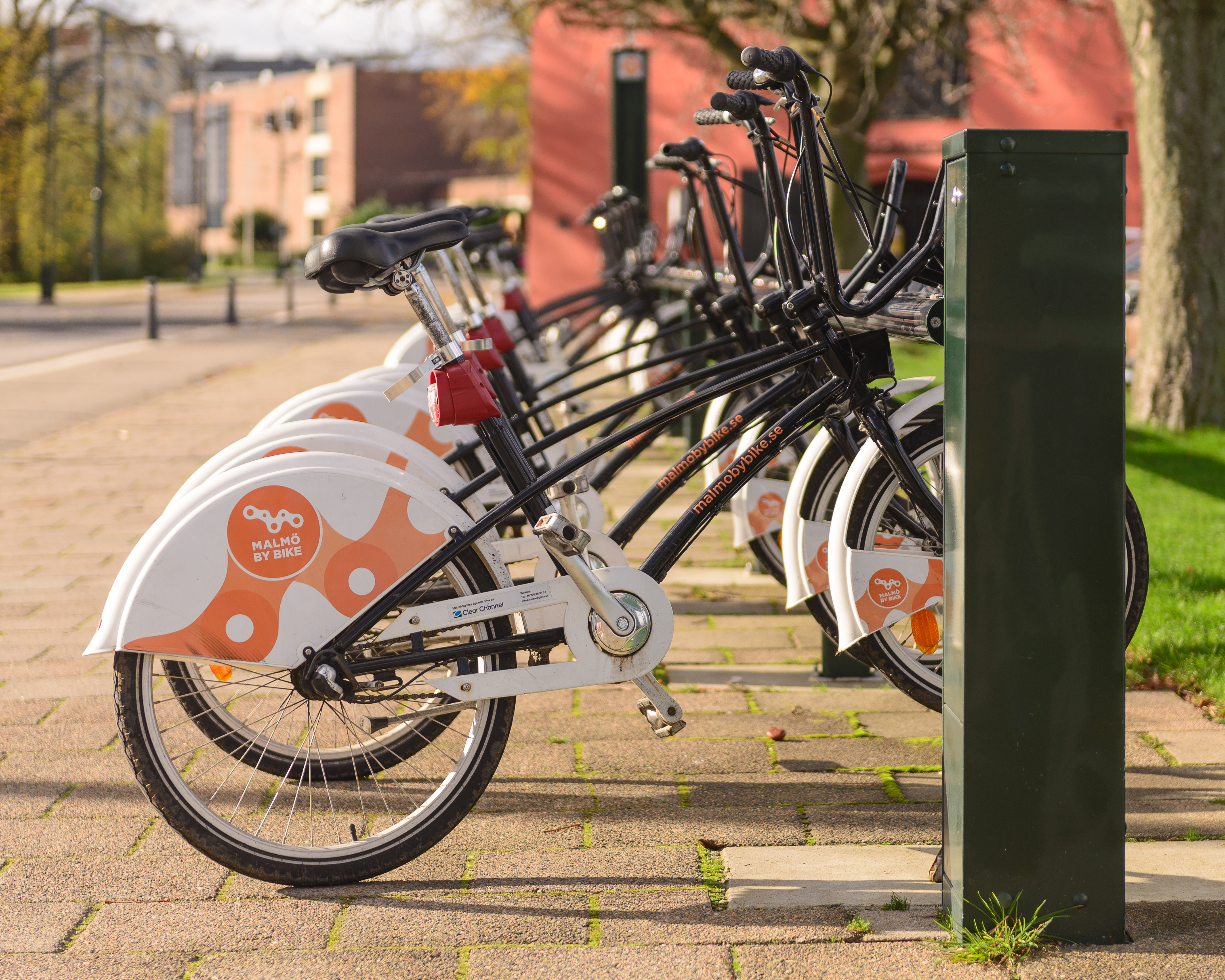 Malmö by bike, a Bicycle-sharing systems in Malmö, Sweden.